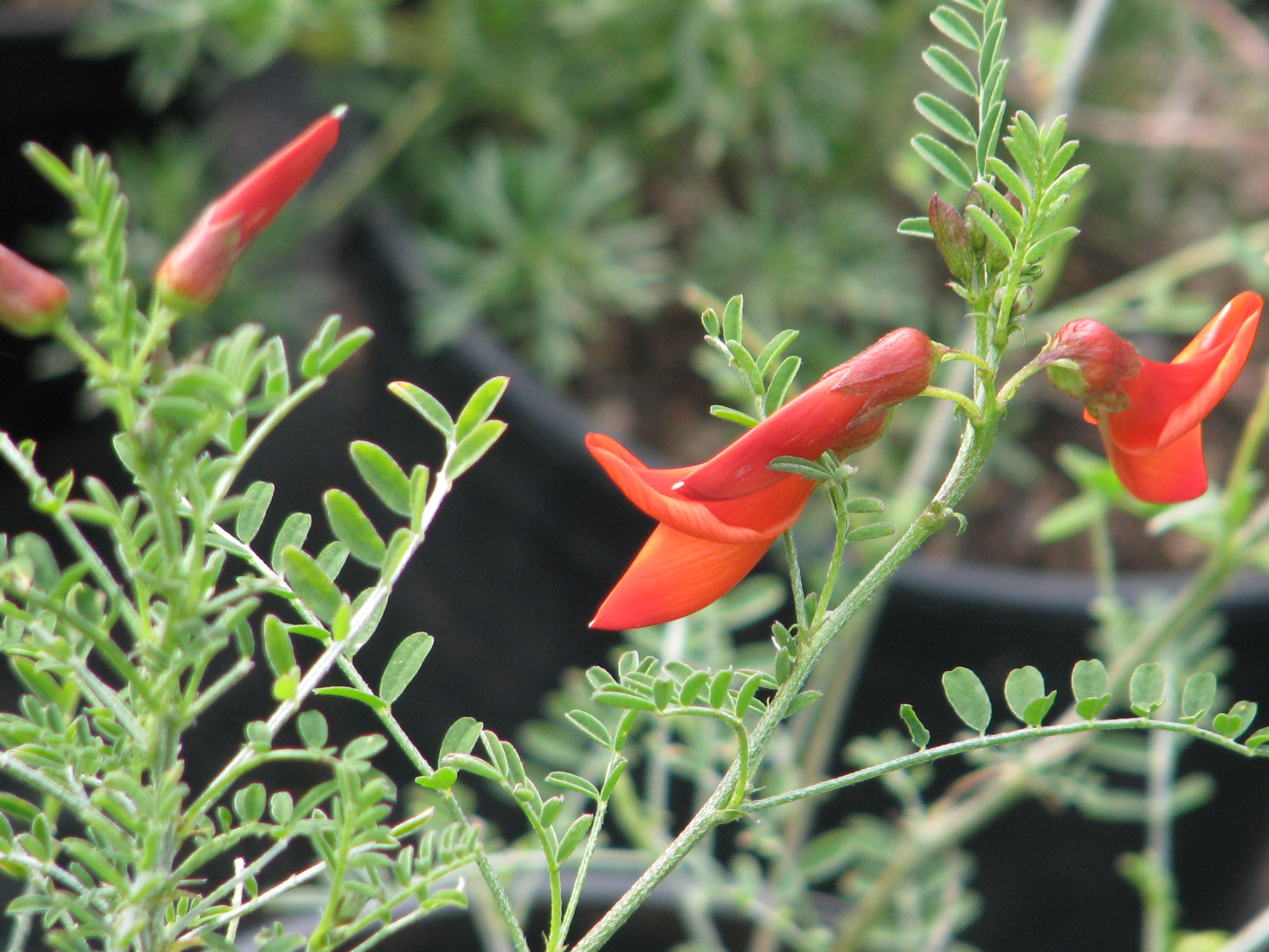 Sutherlandia montana